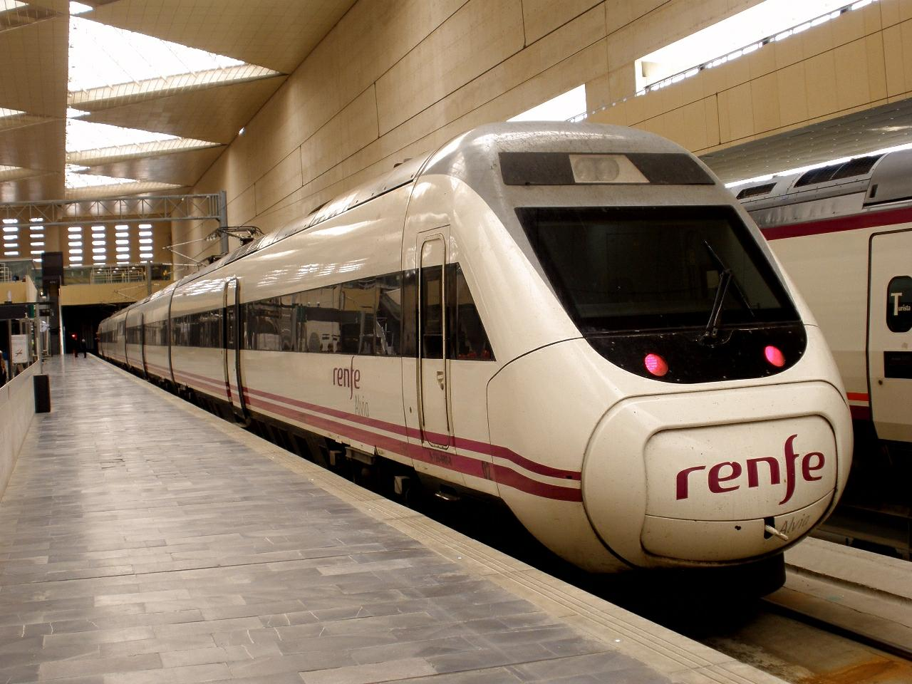 Alvia train unit in Zaragoza Delicias station